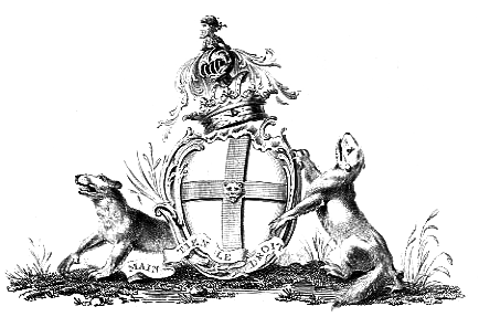 Wappen der Dukes of Chandos; siehe auch: Wappen der von Bruges de Montgomery